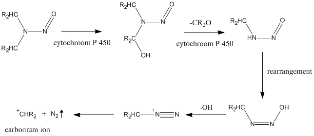 bioactivation pathway of nitrosamines